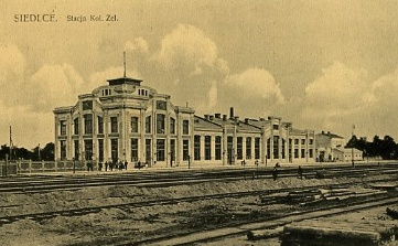 Railway Starion in Siedlce